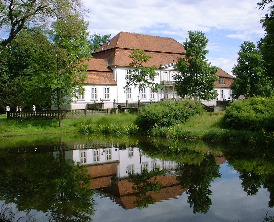 Palace, pond and statues in Wiepersdorf, Brandenburg, Germany